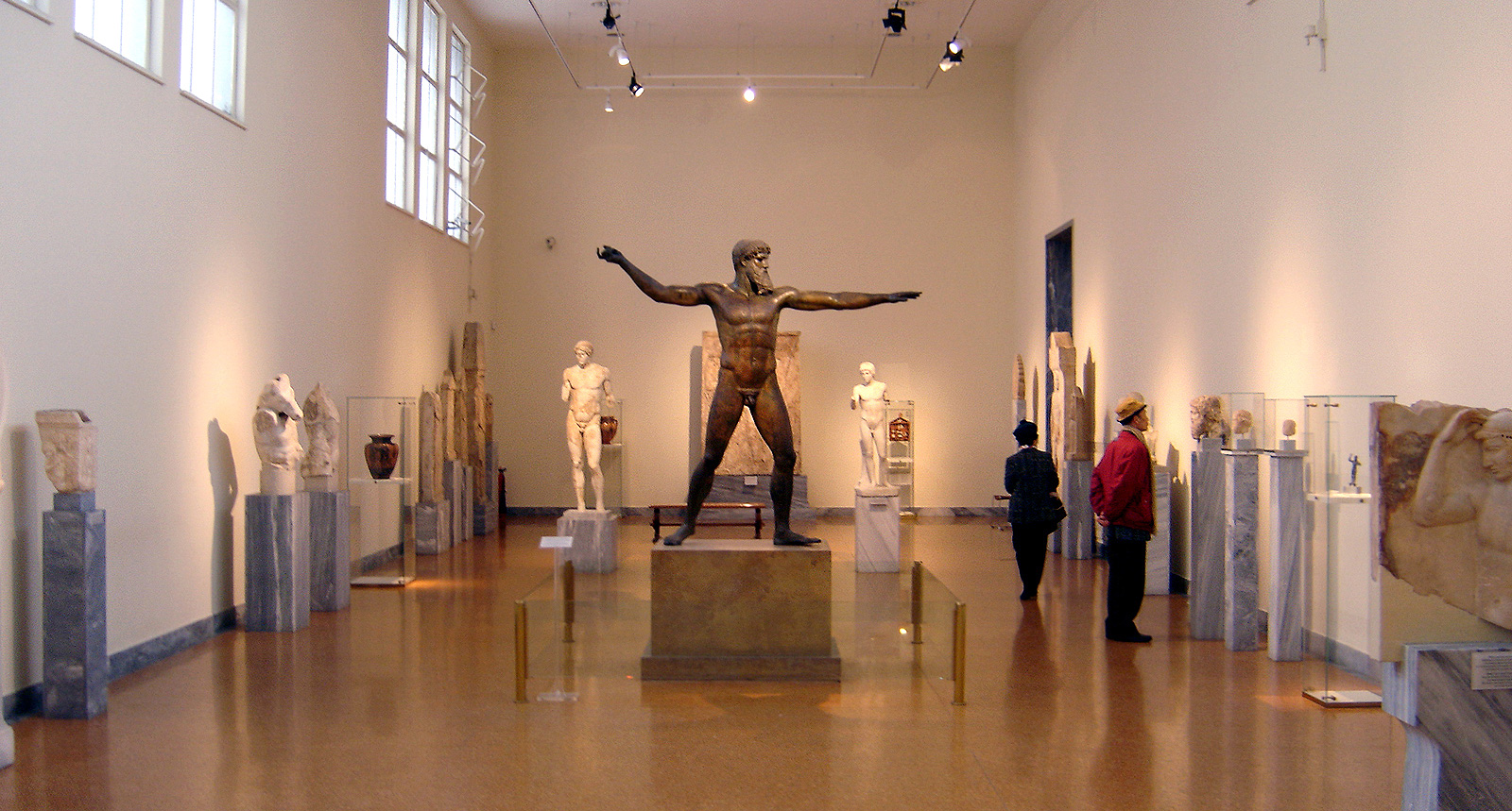 Room 13 of the National Archaeological Museum of Athens.